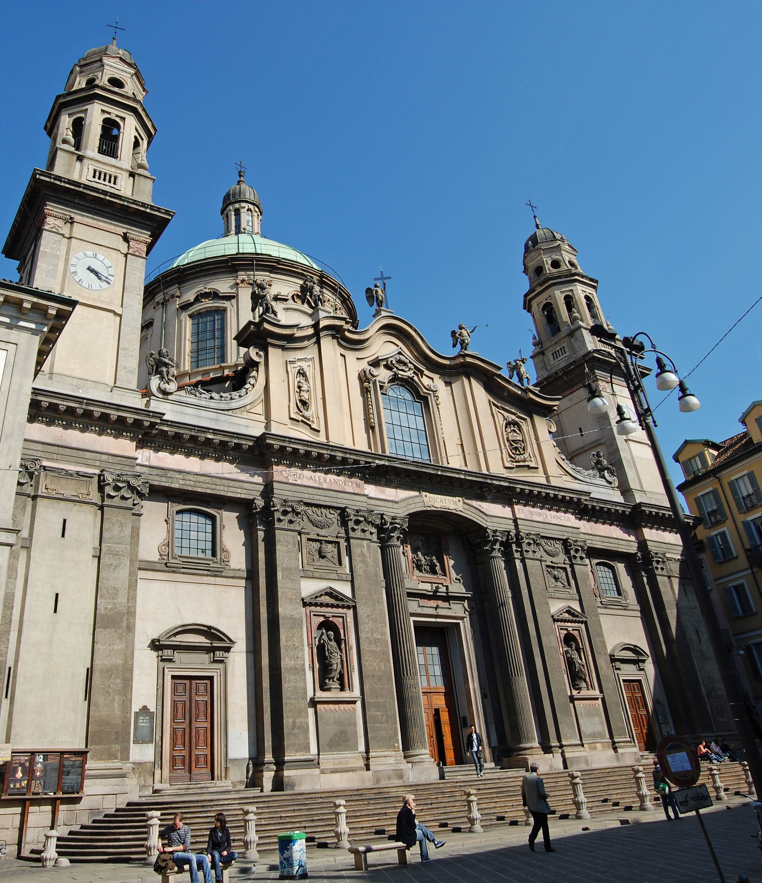 Facade of Sant'Alessandro Church in Milan